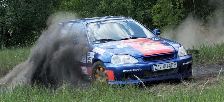 Grodzki Rally Team - Rally Magnolia 2011